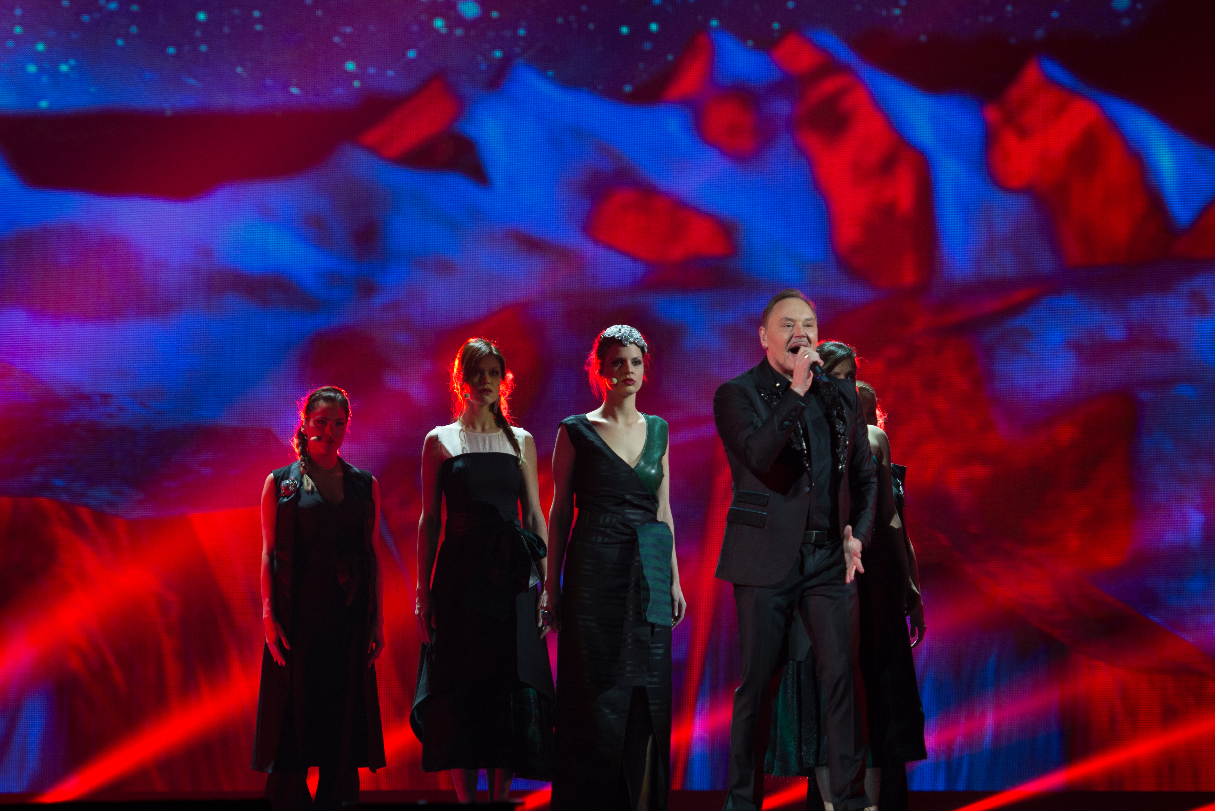 Eurovision Song Contest Vienna 2015: Knez